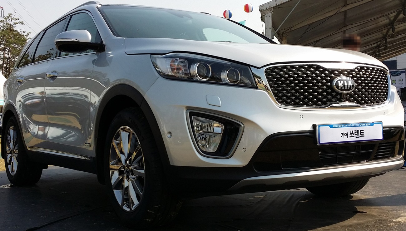 Kia All New Sorento